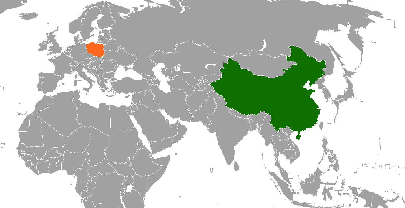 A map of the location of China and Poland.